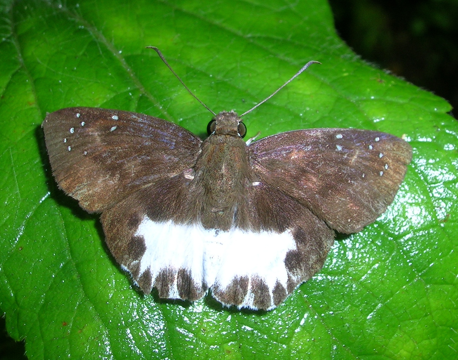 Tagiades litigiosa from North Wynaad